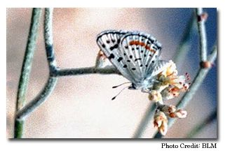 A photograph of the Sand Mountain Blue Butterfly (Euphilotes pallescens arenamontana), taken by the United States Bureau of Land Management. Originally found here.